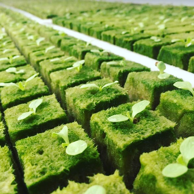 Plants being grown at Emirates Hydroponics Farm. The little cubes are made of rock wool.